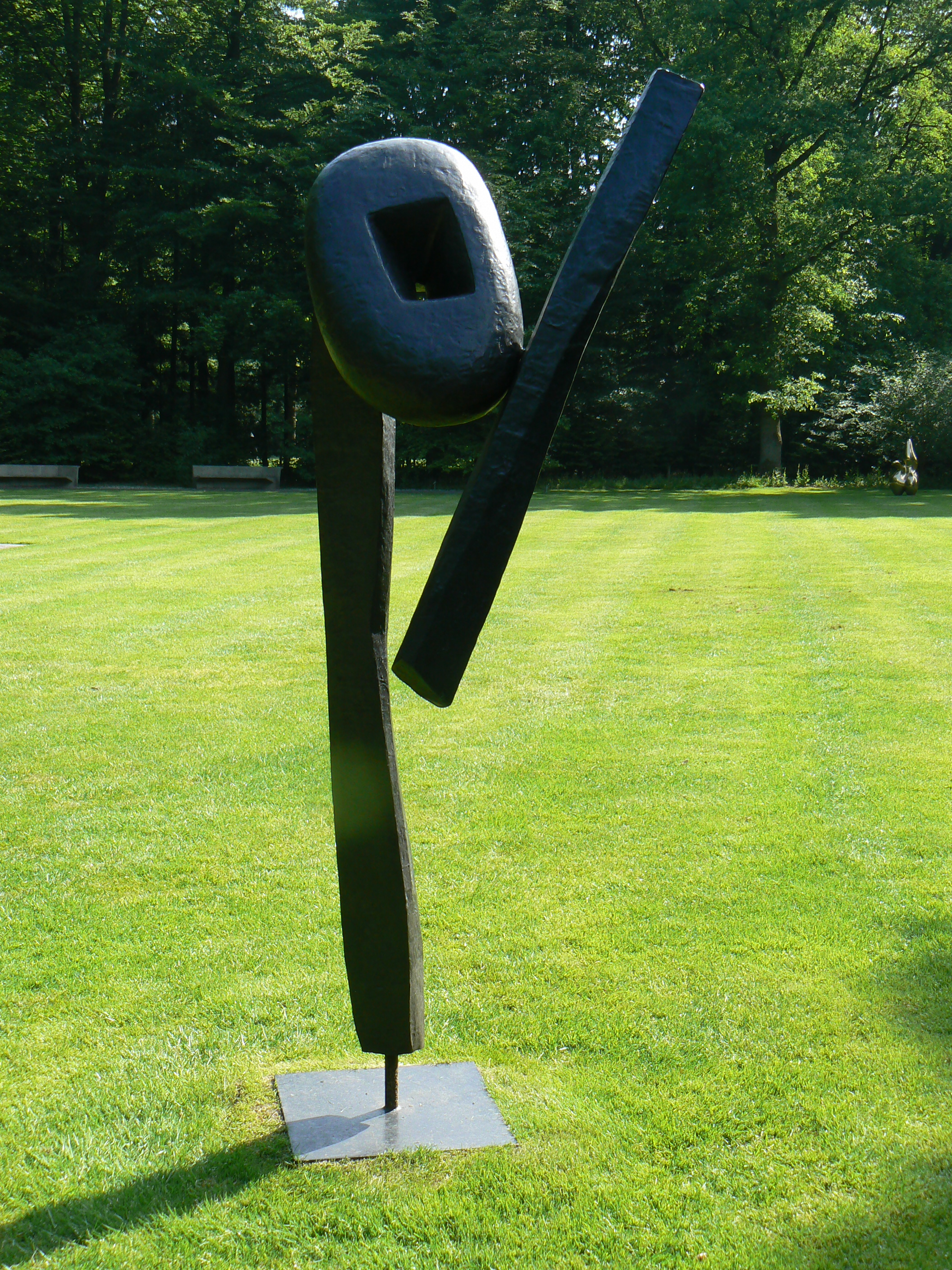 sculpture The Cry (1959) by Isamu Noguchi in KMM Sculpturepark/The Netherlands